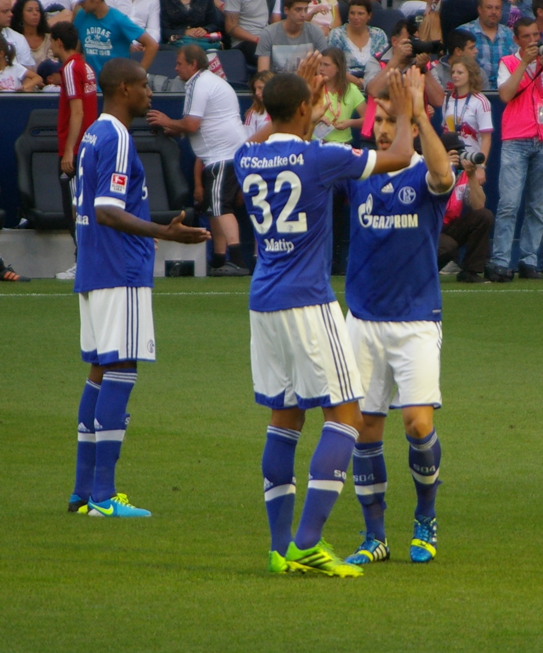 friendly match